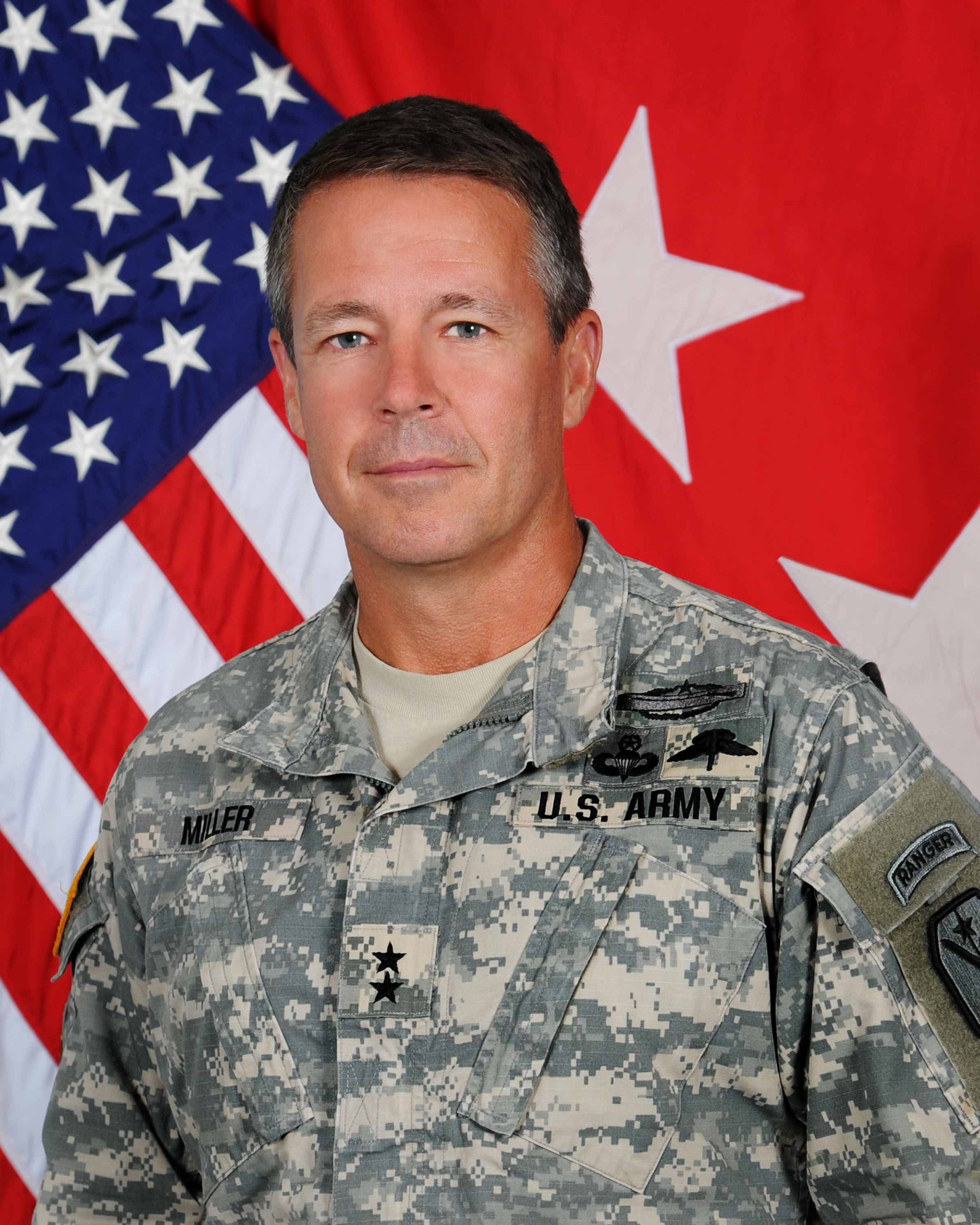 Major General Austin S. Miller Commanding General, U.S. Army Maneuver Center of Excellence